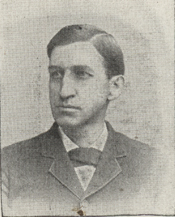 former congressman James Robert Williams of Illinois. Photo from "”The House of Representatives of the Fifty Third Congress” (detail), The Graphic Chicago, 1893, Collection of U.S. House of Representatives"